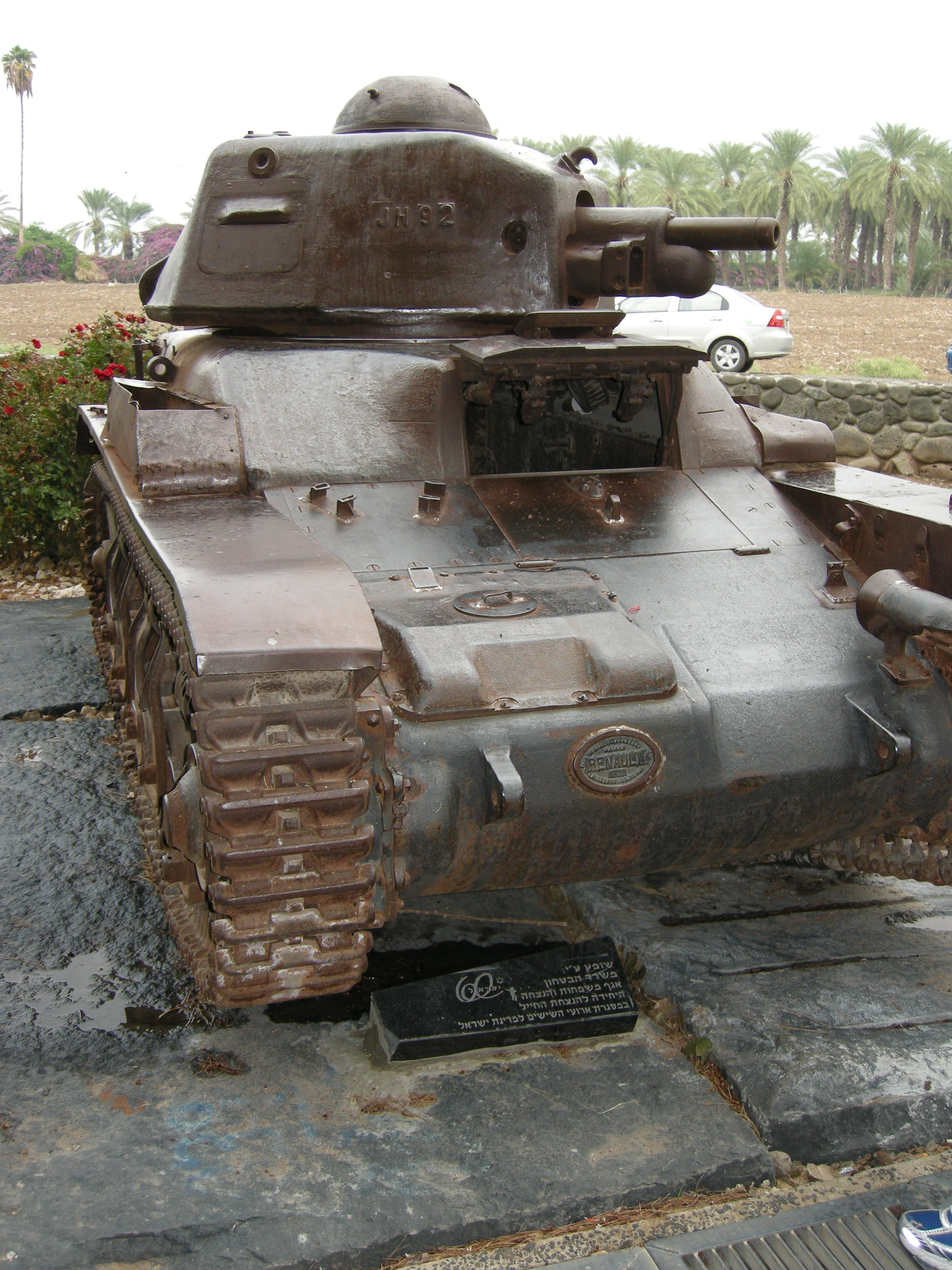 Degania Alef